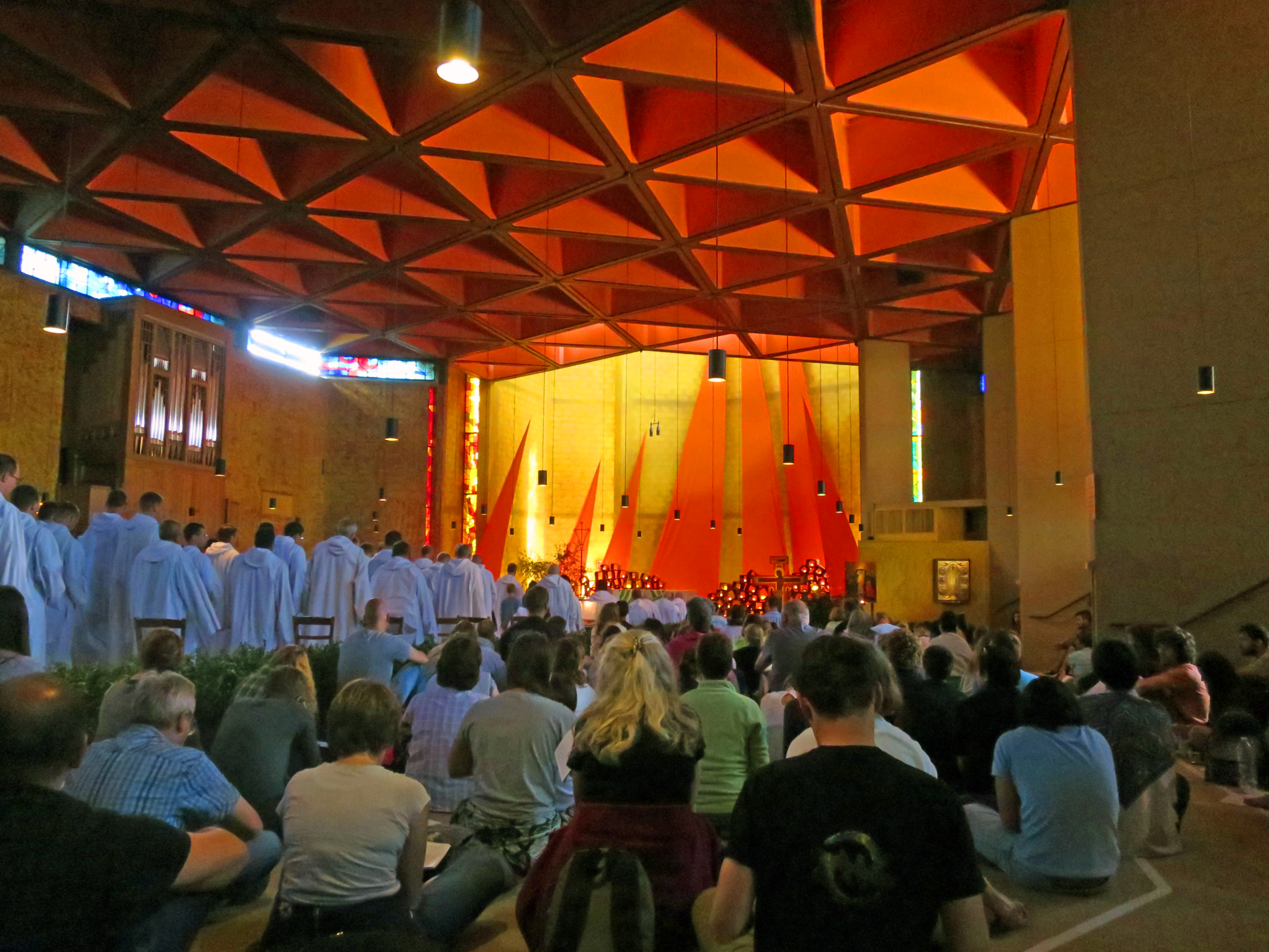 Prayer in Taizé